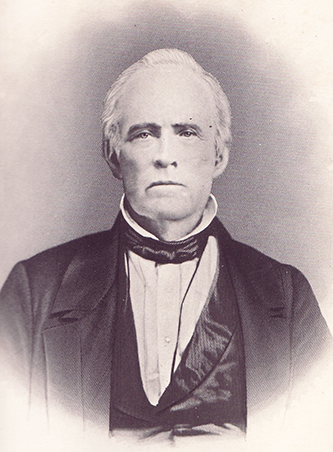 E. G. Williams and Bro., engraver "Jno. D. Hawkins." Engraving. Biographical history of North Carolina from colonial times to the present volume 5. Greensboro, N.C.: C.L. Van Noppen. 1906. 160